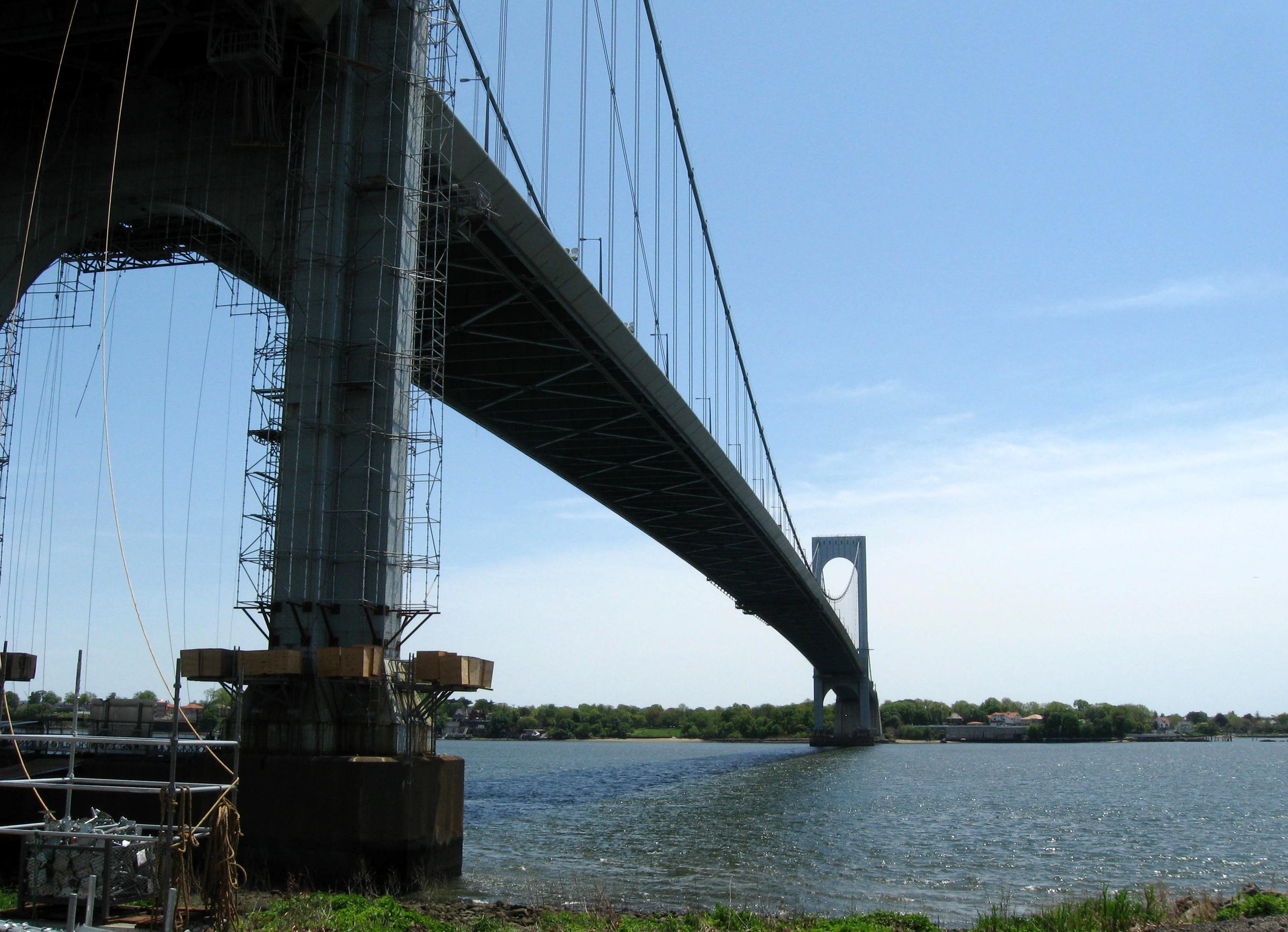 Looking south along Bronx-Whitestone Bridge on a sunny early afternoon from the Bronx shore below.